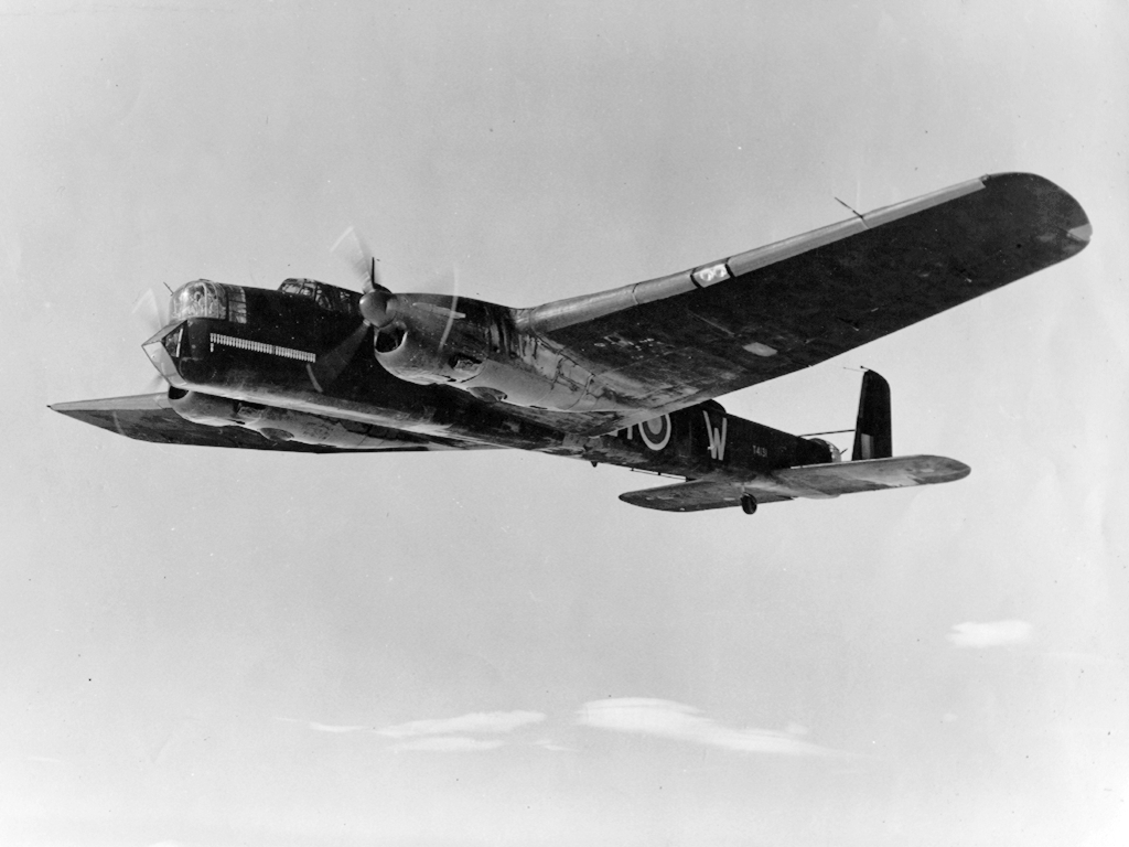 A Royal Air Force Armstrong Whitworth Whitley Mk.V bomber (serial T4131) from No. 78 Squadron (code EY-W) in flight, circa 1940.